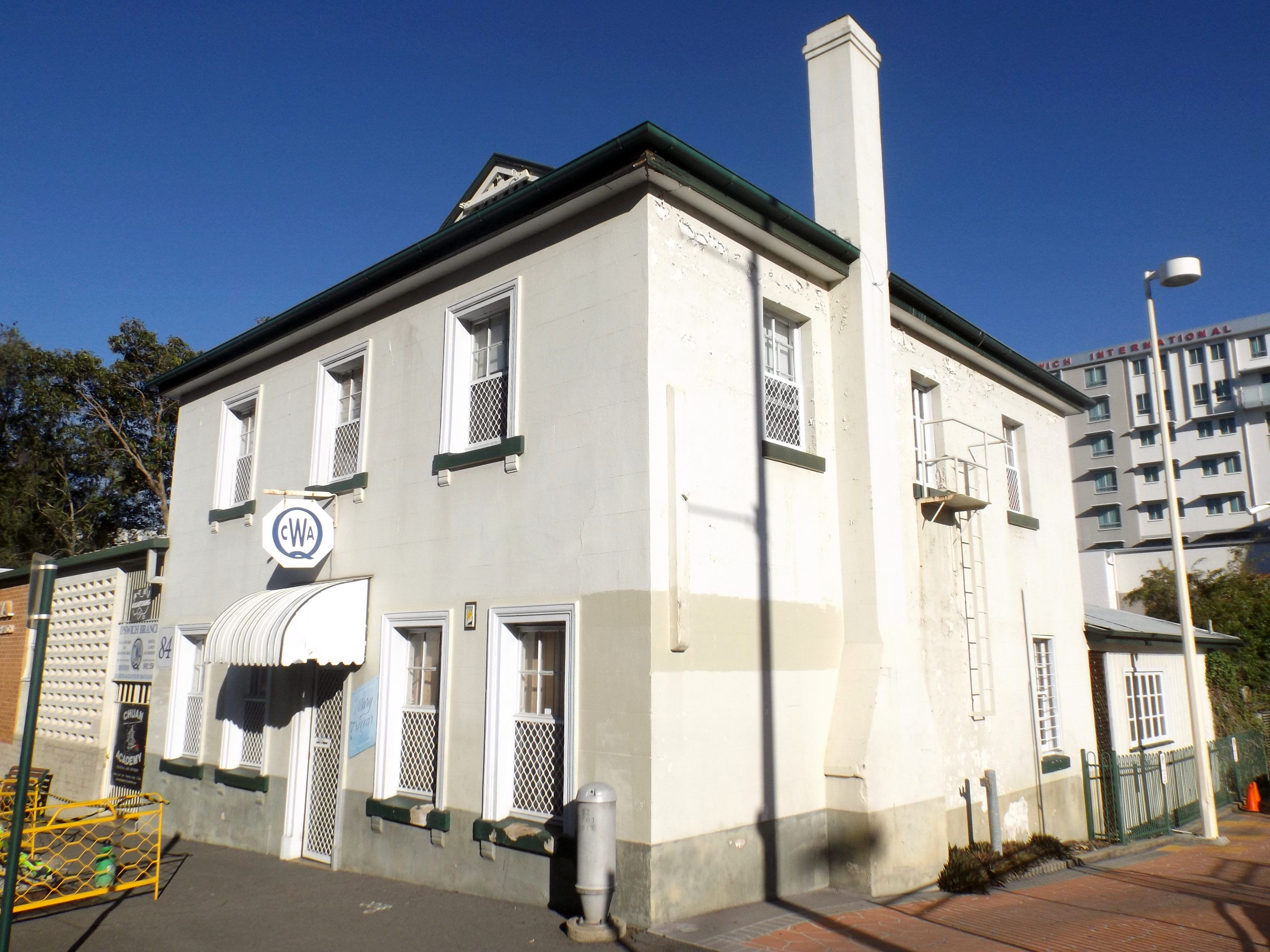 Photo of Liberty Hall at Ipswich, Queensland, Australia.